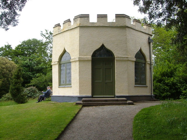 The Castle, Saltram House. This C18 octagonal summer house with ogive windows is at the western extremity of the garden walks at Saltram House.